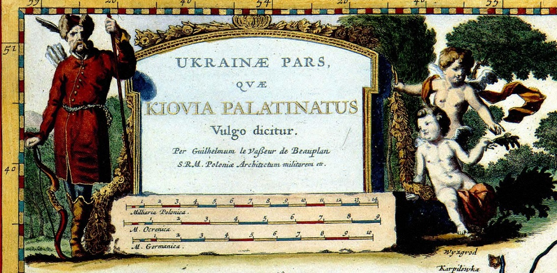 Ukraine. Kiovia Palatinatus